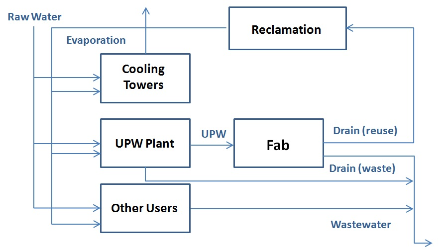 Outline for a typical water system for a semiconductor plant.